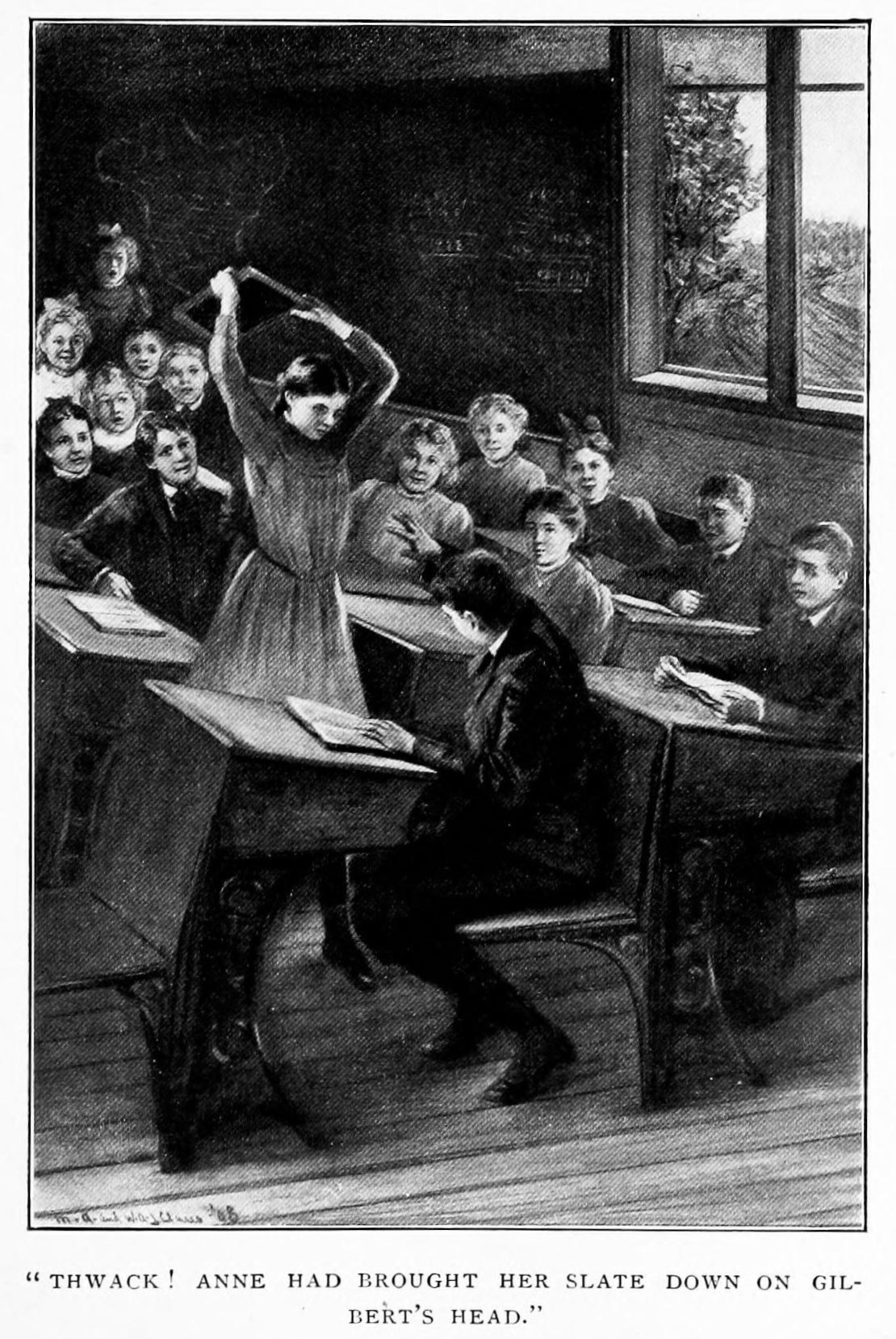 Illustration from a 1908 publication of Anne of Green Gables by L.M. Montgomery